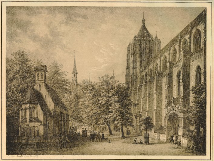 Ulm Minster from Northeast, lithography of 1818, cleristory still without flying buttresses